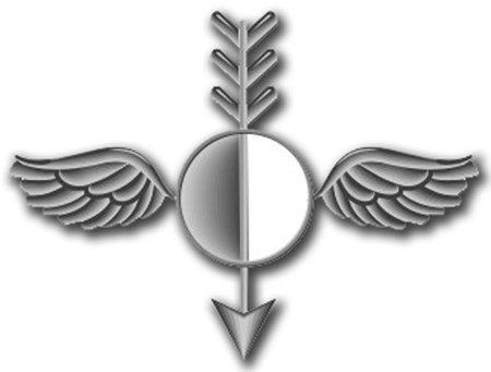 US Navy Aerographer's Mate (AG). A winged circle with vertical, feathered arrow through it. One-half of the circle is filled in and to the front.